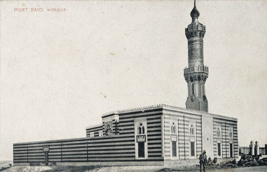 Striped building with a minaret